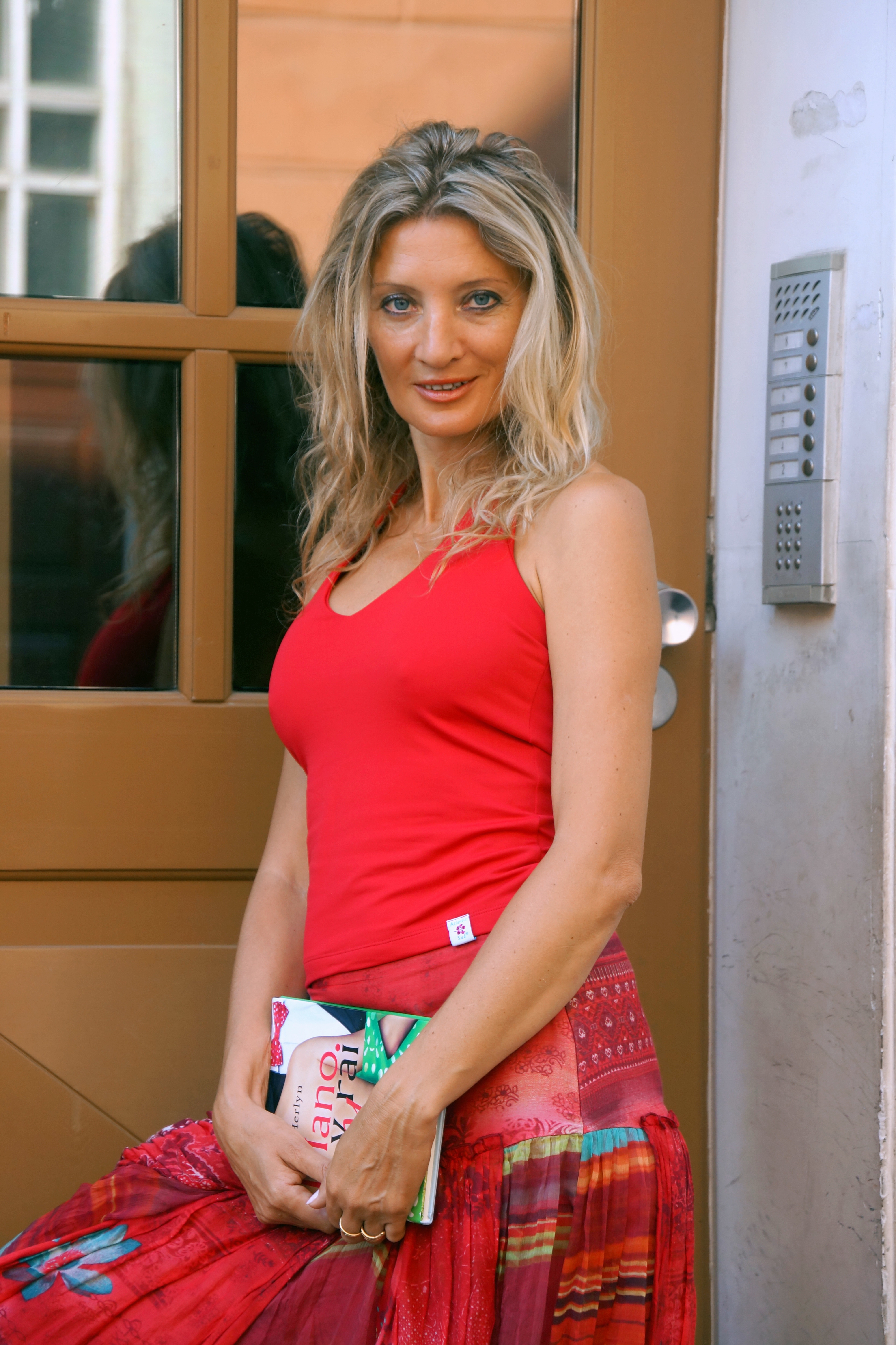 Photo of Jolita Herlyn